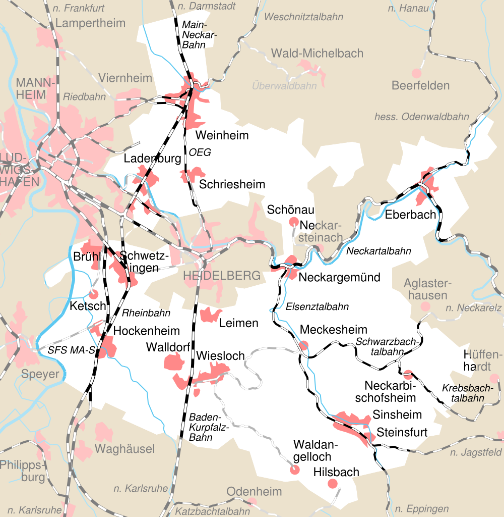 railway map of German Rhein-Neckar district. please see User:Kjunix/BahnNWB for comments.